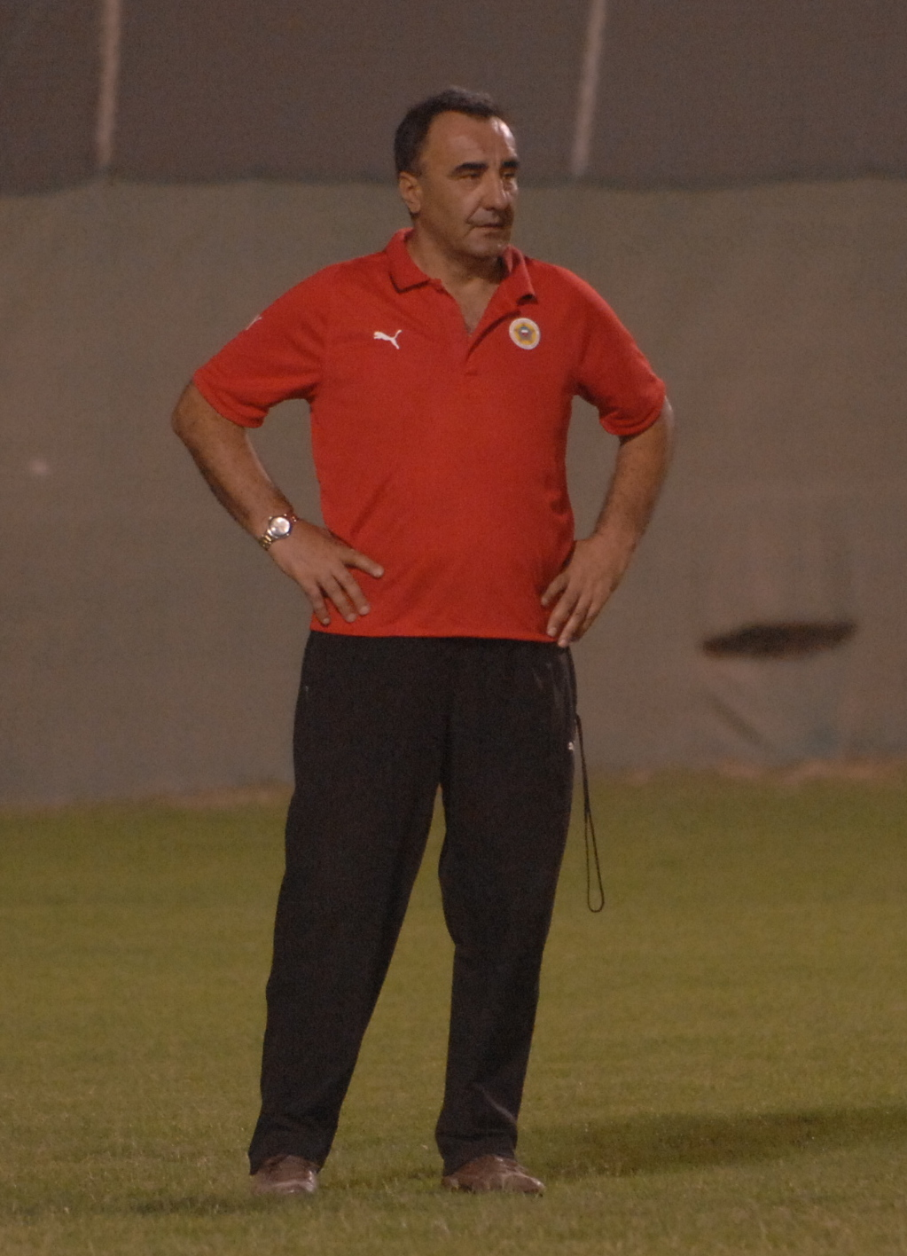 Senad Kreso in a training session with Bahrain national football team in 2006 12 November 2006 Bahrain National Stadium Photographer email id